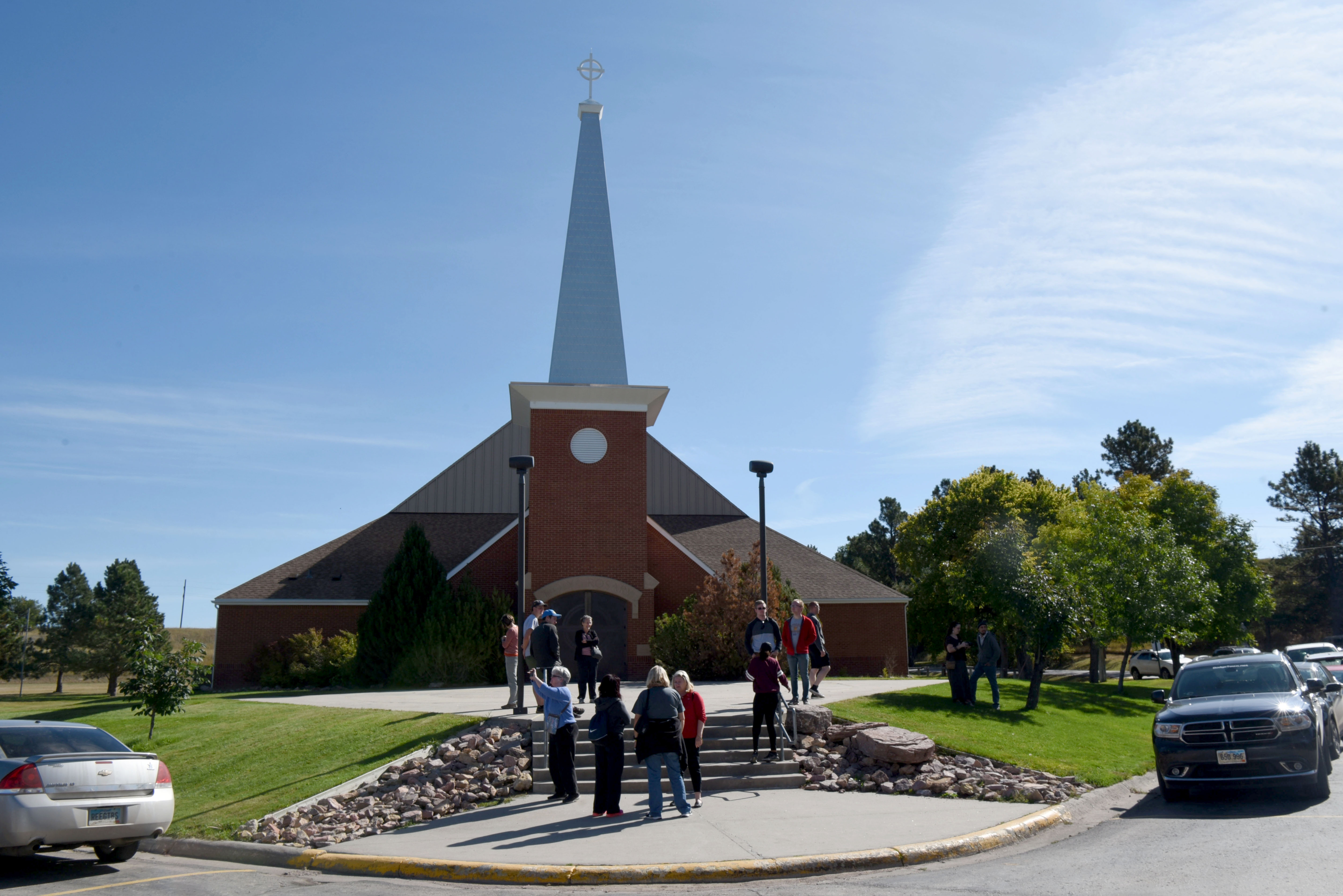 Airmen from the 90th Missile Wing wait outside of the Holy Rosary Catholic Church at Red Cloud Indian School before receiving a tour at the Pine Ridge Reservation, South Dakota., Sept. 27, 2017. These Airmen volunteered to work on various projects around the reservation.